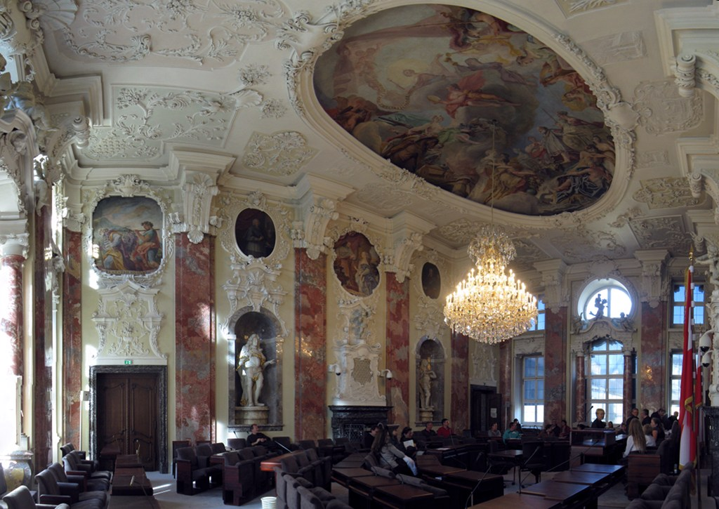 old "Landhaus" (provincial parliament) in Innsbruck, Austria assembly hall, during open day